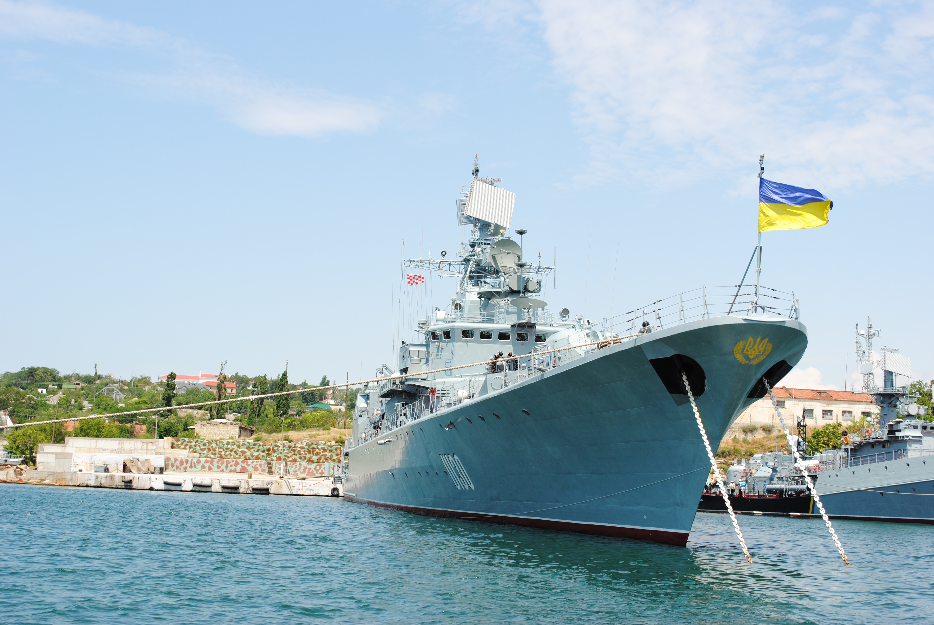 Hetman Sahaidachnyi (ship, 1992) in Sevastopol. Summer 2010.